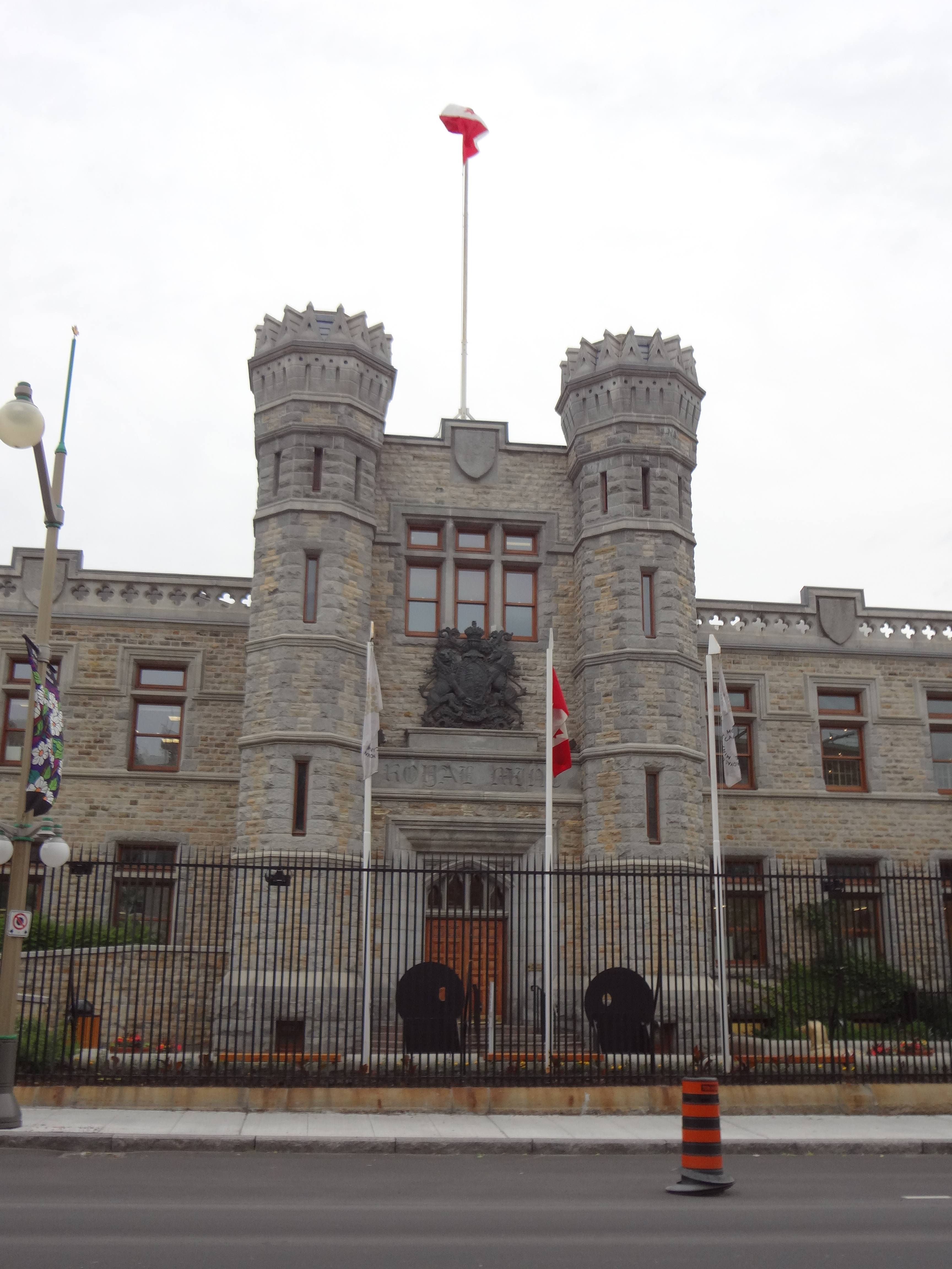 A closer look at the main facade of the Royal Canadian Mint, a historical structure located on Sussex Drive in Ottawa, Canada. Notes appeared in previous caption. The Royal Canadian Mint was authorized to be built in Ottawa in 1901 after being first proposed in 1890. During a short ceremony, Lord Grey and his wife, Lady Grey, activated the presses for the Canadian Mint on January 2, 1908, officially opening the Ottawa branch of the Royal Mint. When the facility first opened, it had 61 employees. (Ottawa, Canada, June 2015)